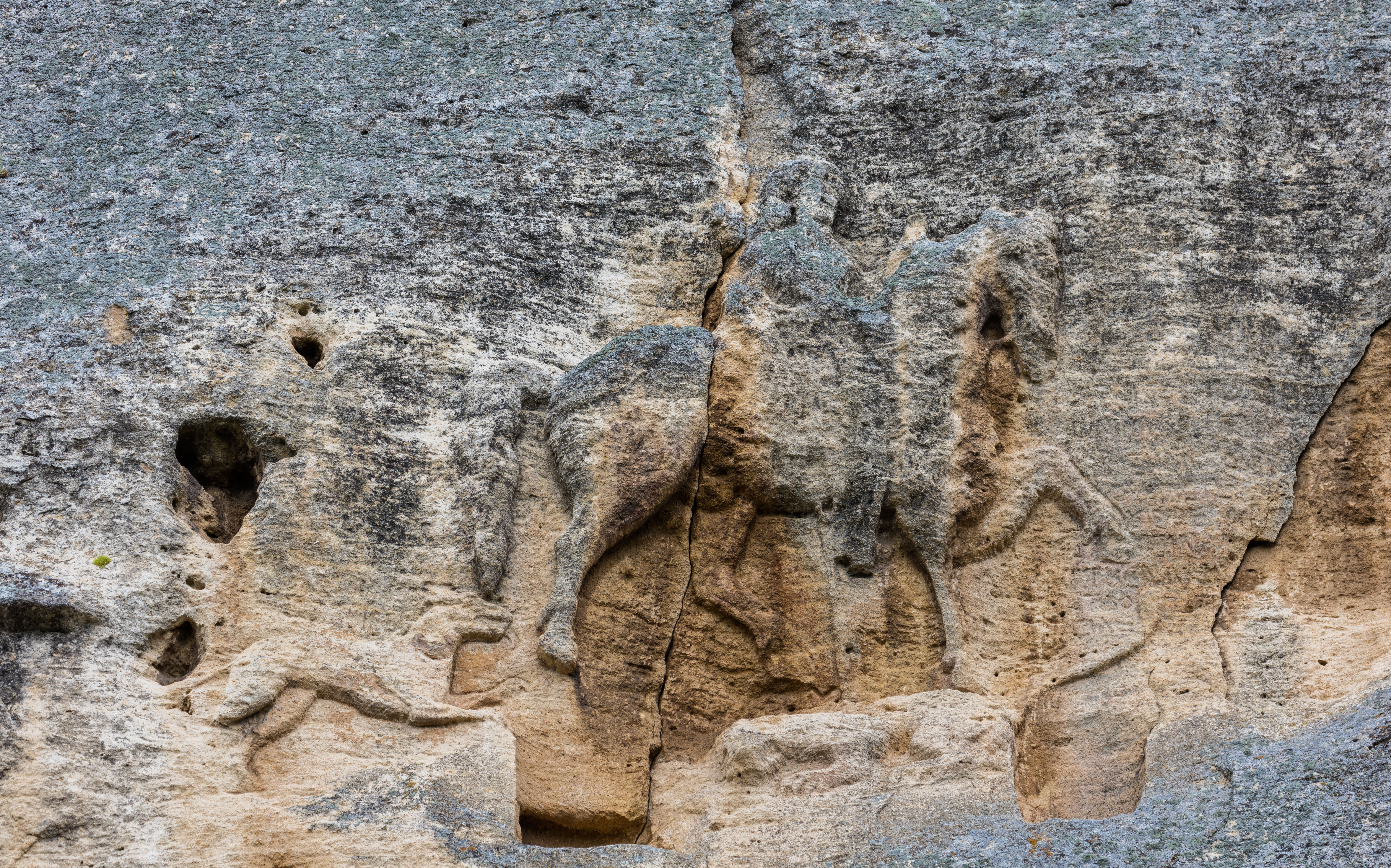 Madara Rider, National historical archaeological reserve, Bulgaria